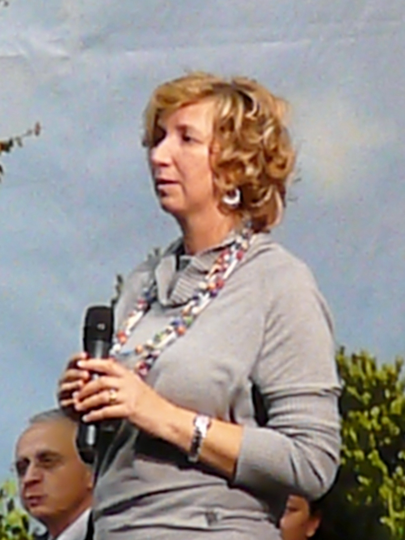 Marija Pavlović at PalaDesio